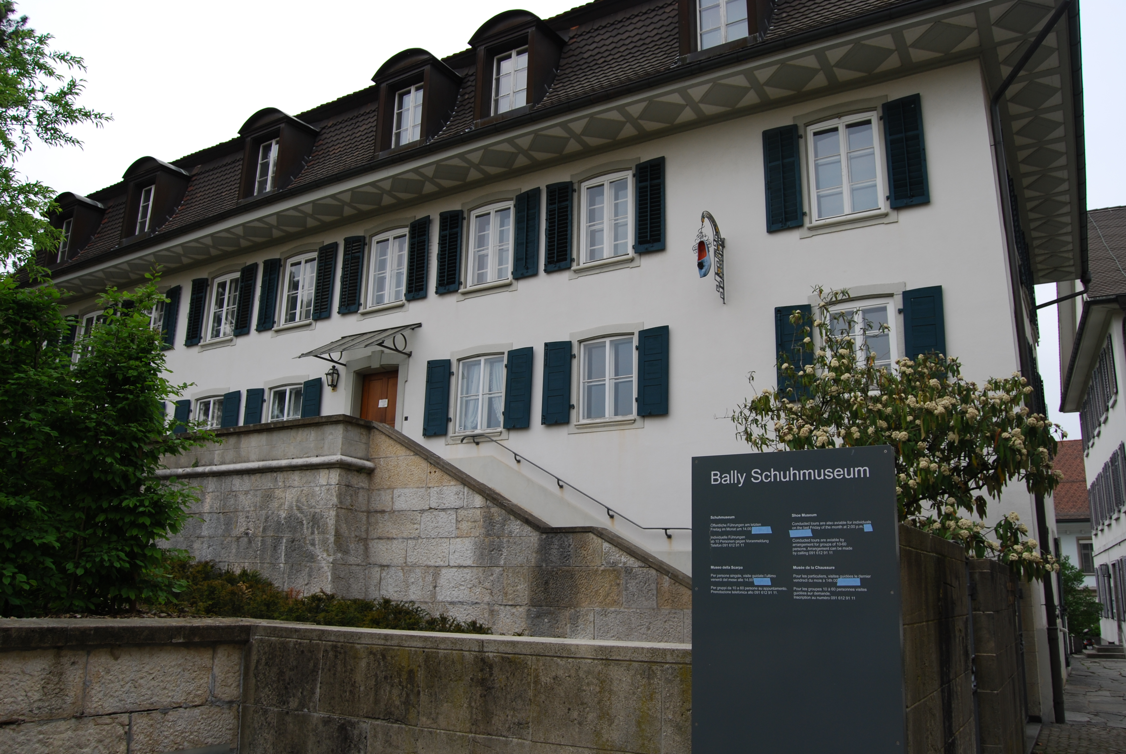 Bally shoe museum at Schönenwerd, canton of Solothurn, Switzerland